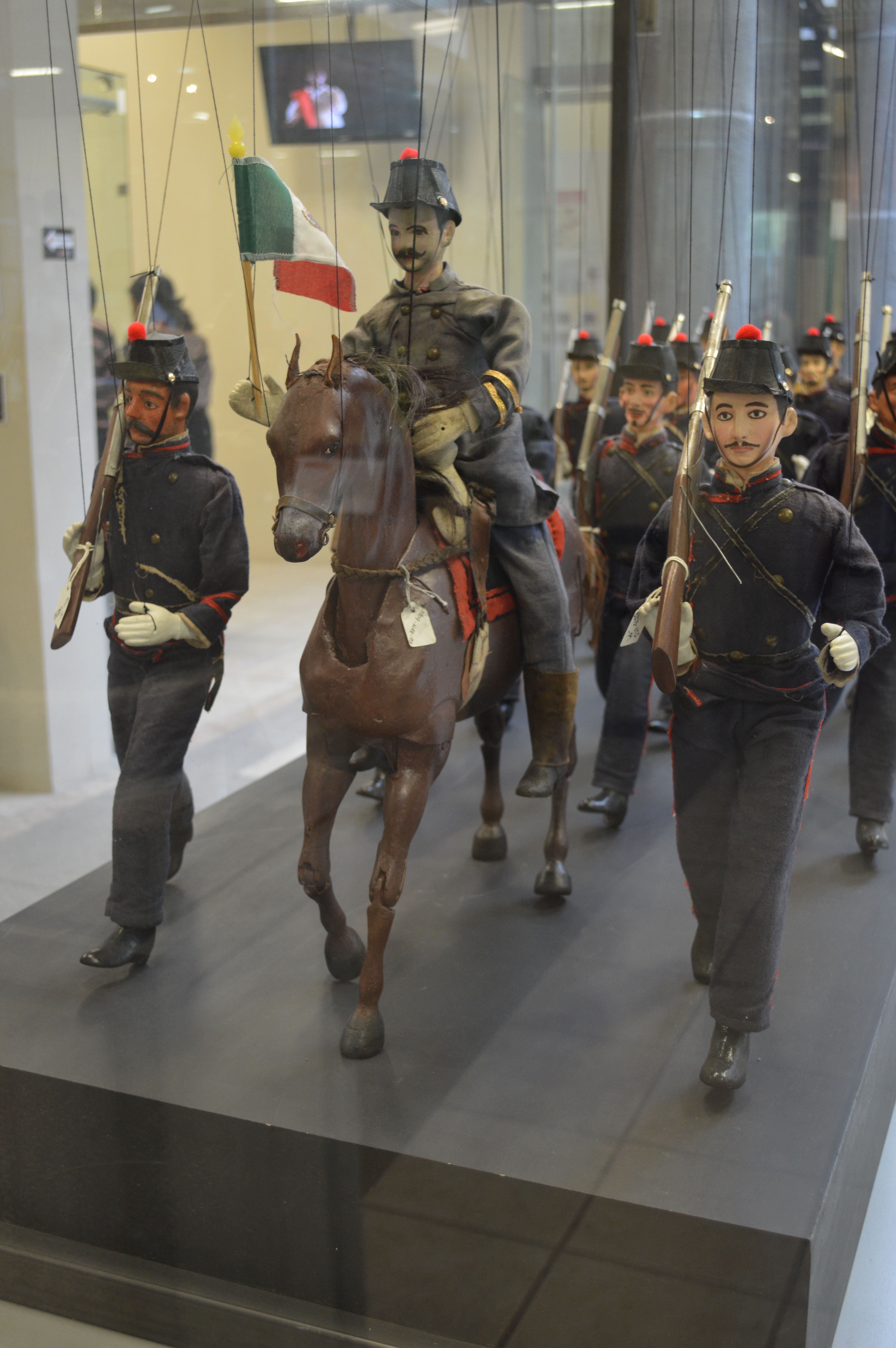 "16 de Septiembre en México" marching soldiers (1891-1908) of the Rosete Aranda puppet company on display at the National Puppet Museum in Huamantla, Tlaxcala, Mexico